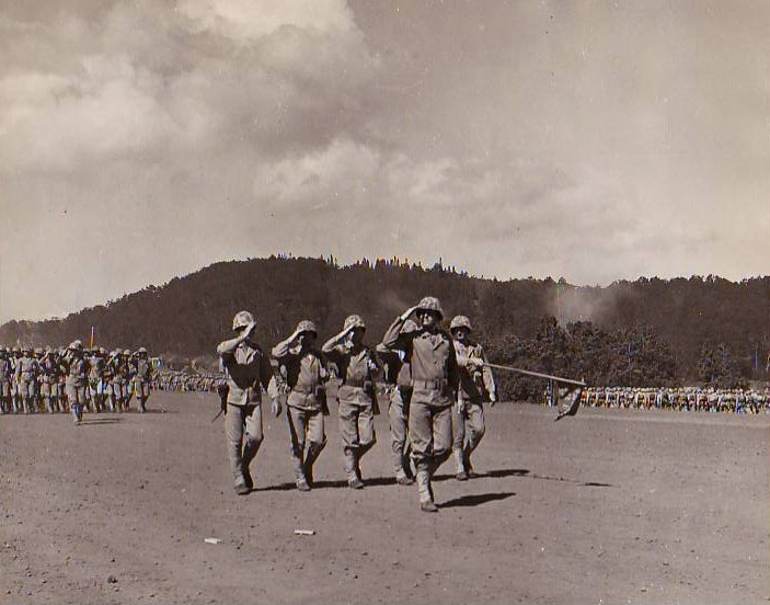 On Maui, Territory of Hawaii January 1945 2nd Battalion, 23rd Marines Passing in review before embarking for Iwo Jima. --- Major R. H. Davidson and Staff at head of column. Balance of Battalion in Rear.